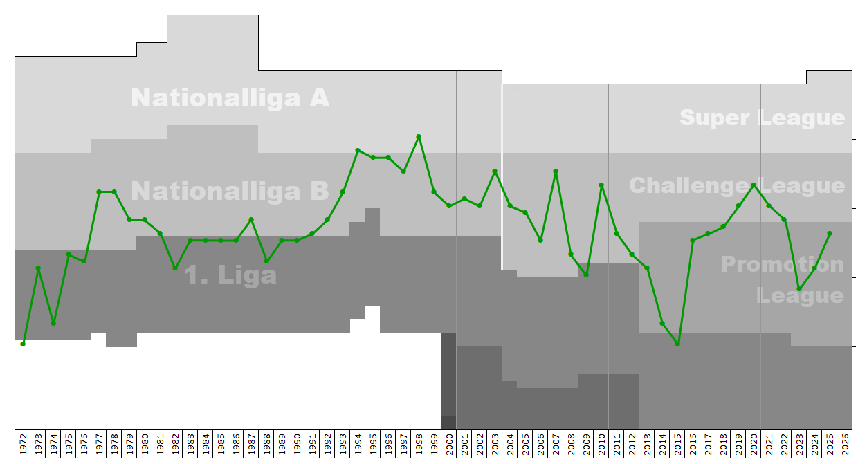 Chart of end-season table positions for SC Kriens in the Swiss football league system. Data source: RSSSF